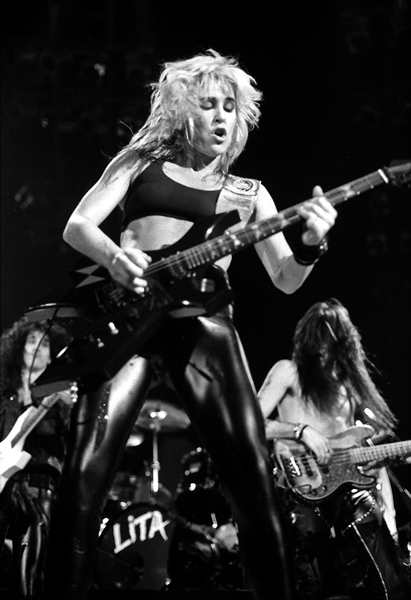 Lita Ford performing on the 19th December 1988. "Olympiahalle" venue in Munich, Germany. Billed as the support act to Bon Jovi.